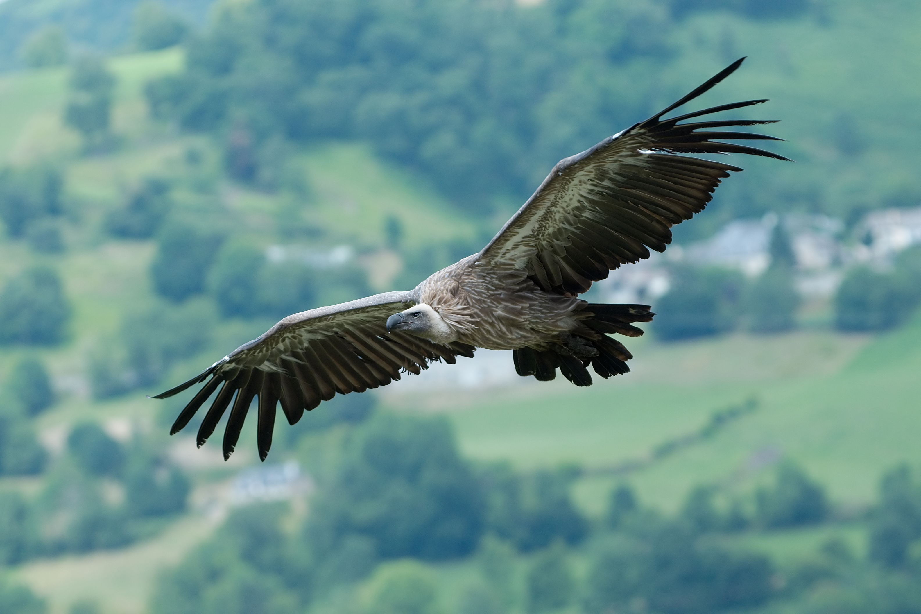 Griffon Vulture in France (Pyrénées)